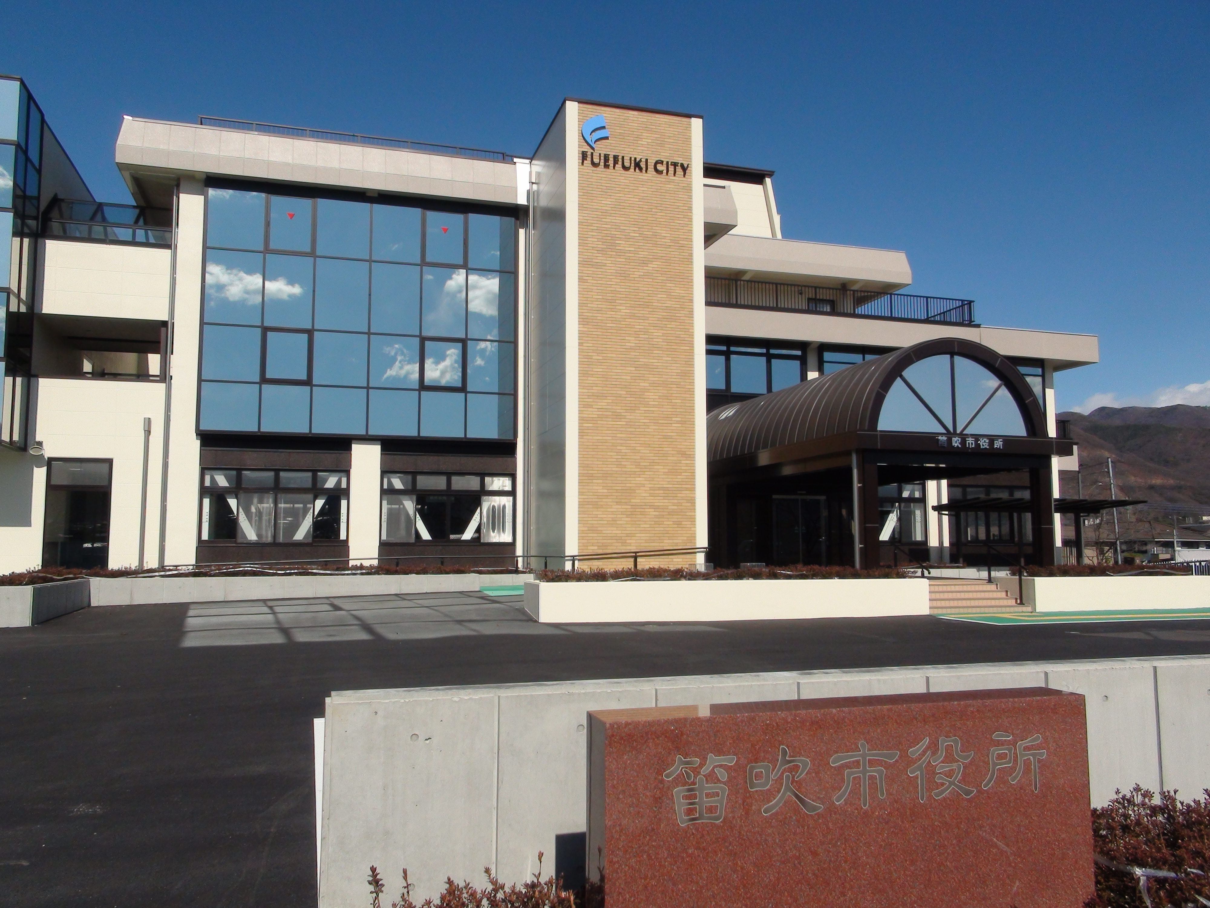 Fuefuki City hall March 2014